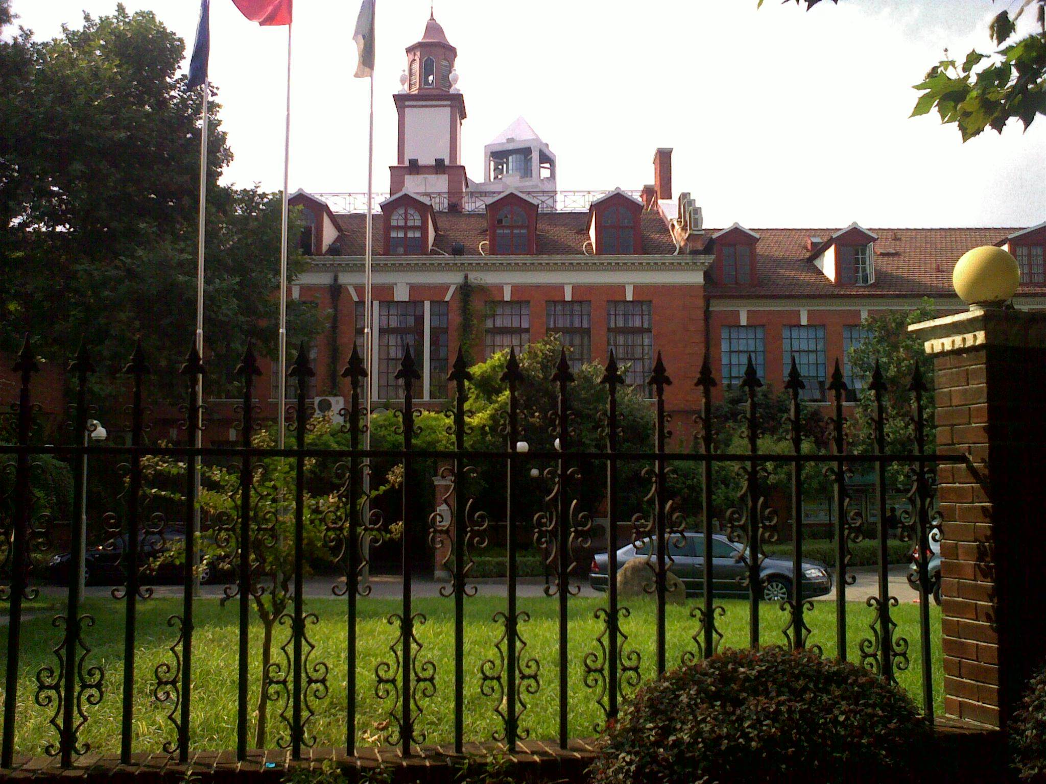 Hengshan Road No. 10